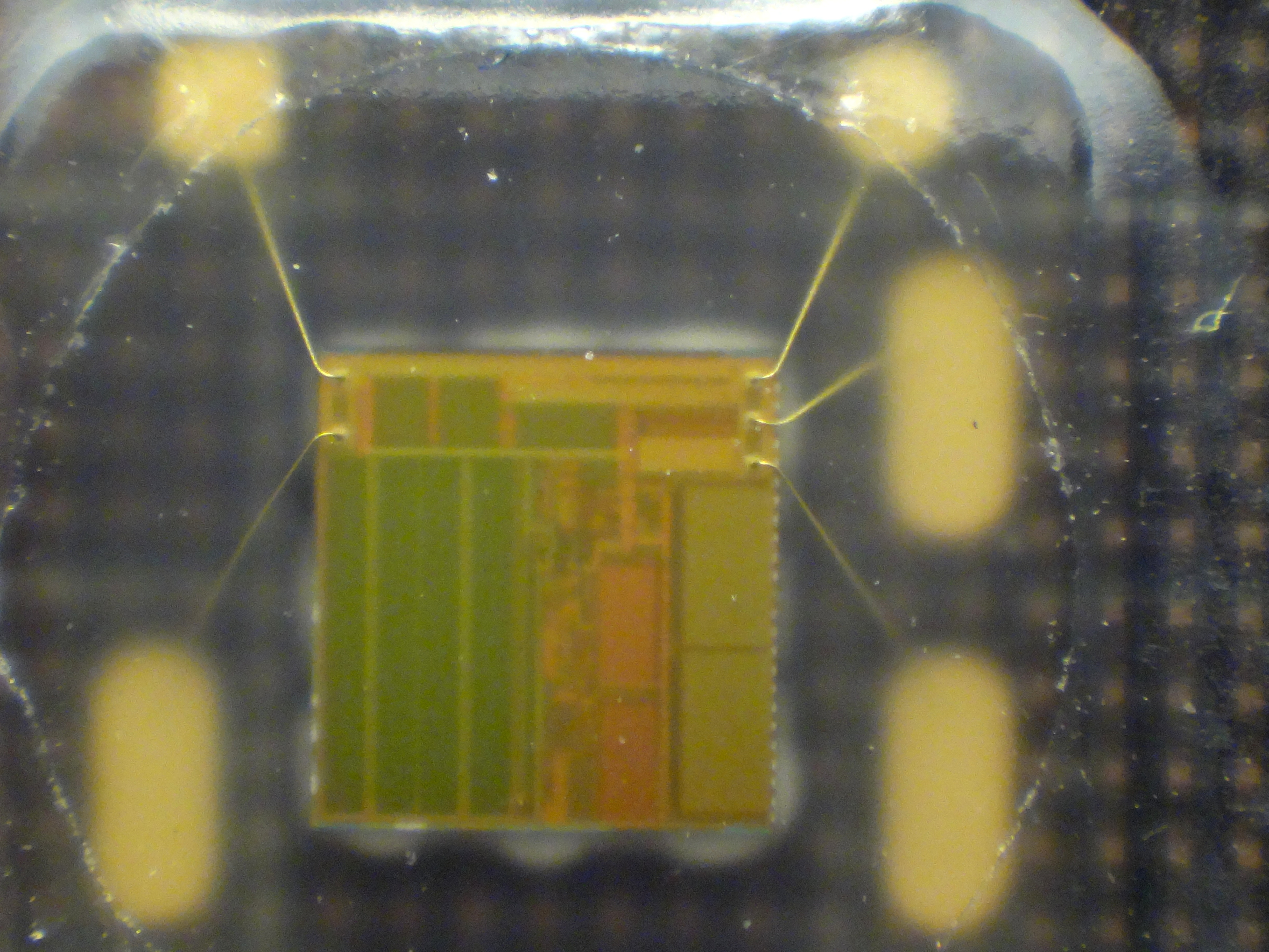 Silicon chip inside a SIM card